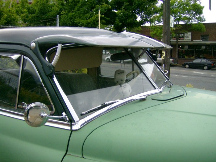 The split and raked windshield on a 1952 DeSoto DeLuxe. Shot by Sofar No. 2 at the corner of 24th Ave. and Market St. in Seattle, Washington, on June 3rd, 2007. Intended for use in the "windshields" article. Because that article does not have enough pictures of windshields, and finding old types of windshield was the only way I could think of to make the subject interesting.